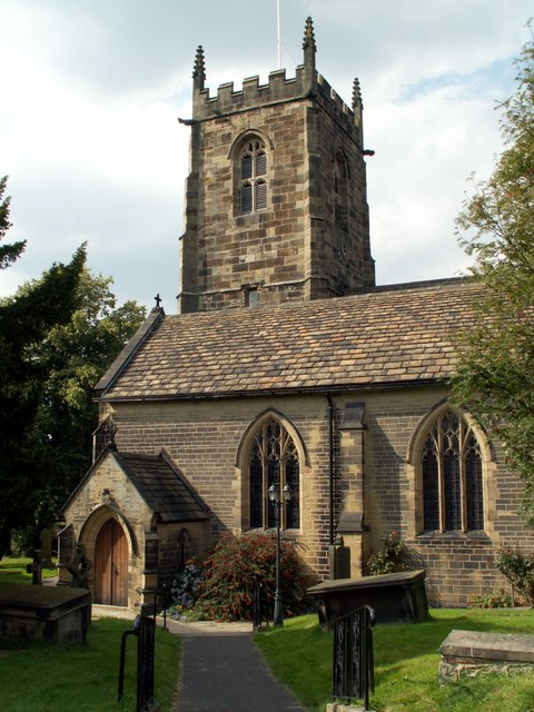 West tower and part of the south aisle of All Saints' parish church, Cawthorne, South Yorkshire